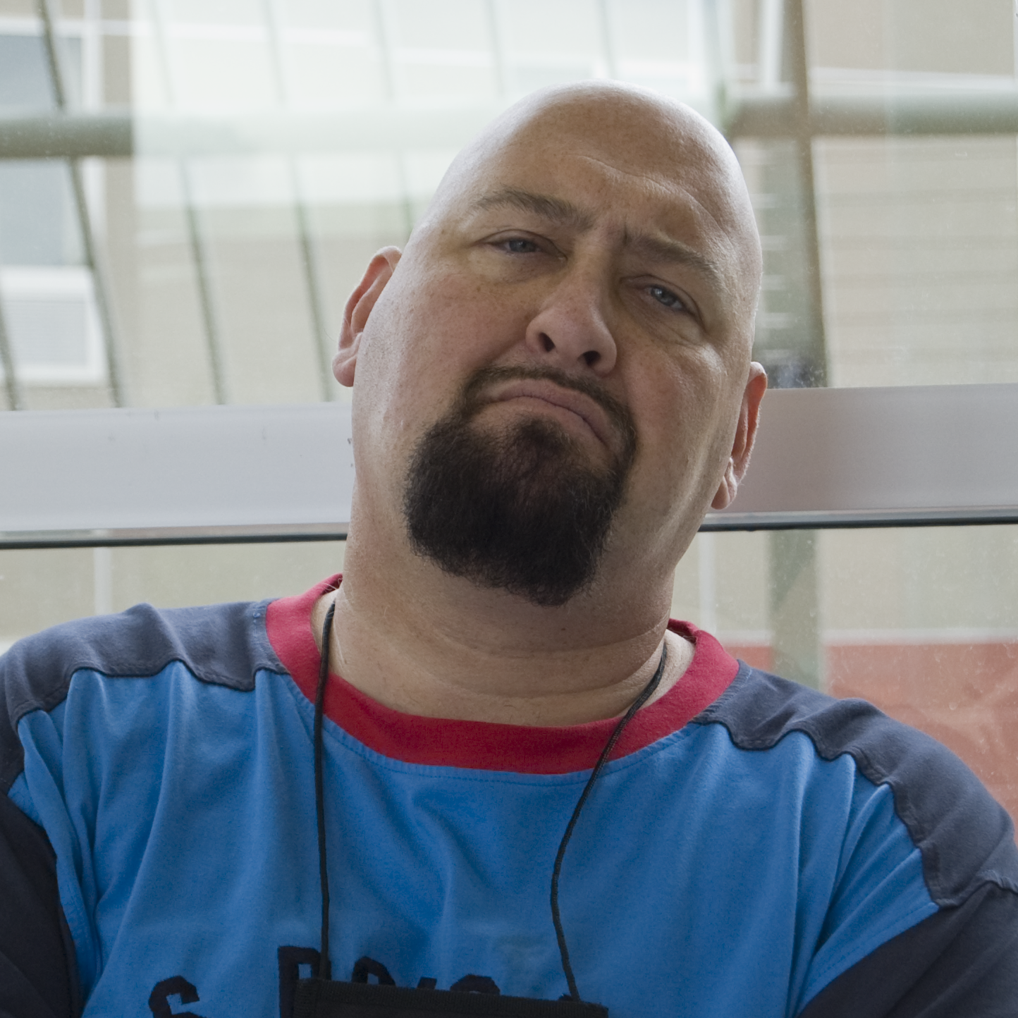 Scott L. Schwartz at Mountain-Con IV in Layton, Utah.